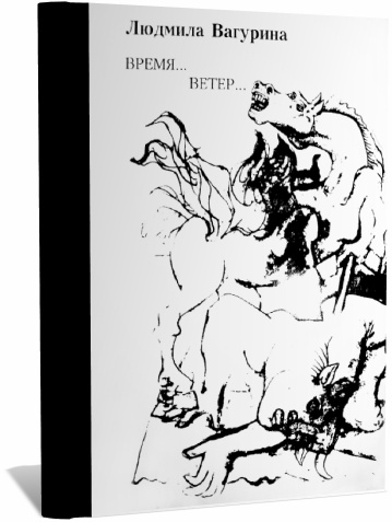 Lyudmila Vagurina, «Time... Wind...»